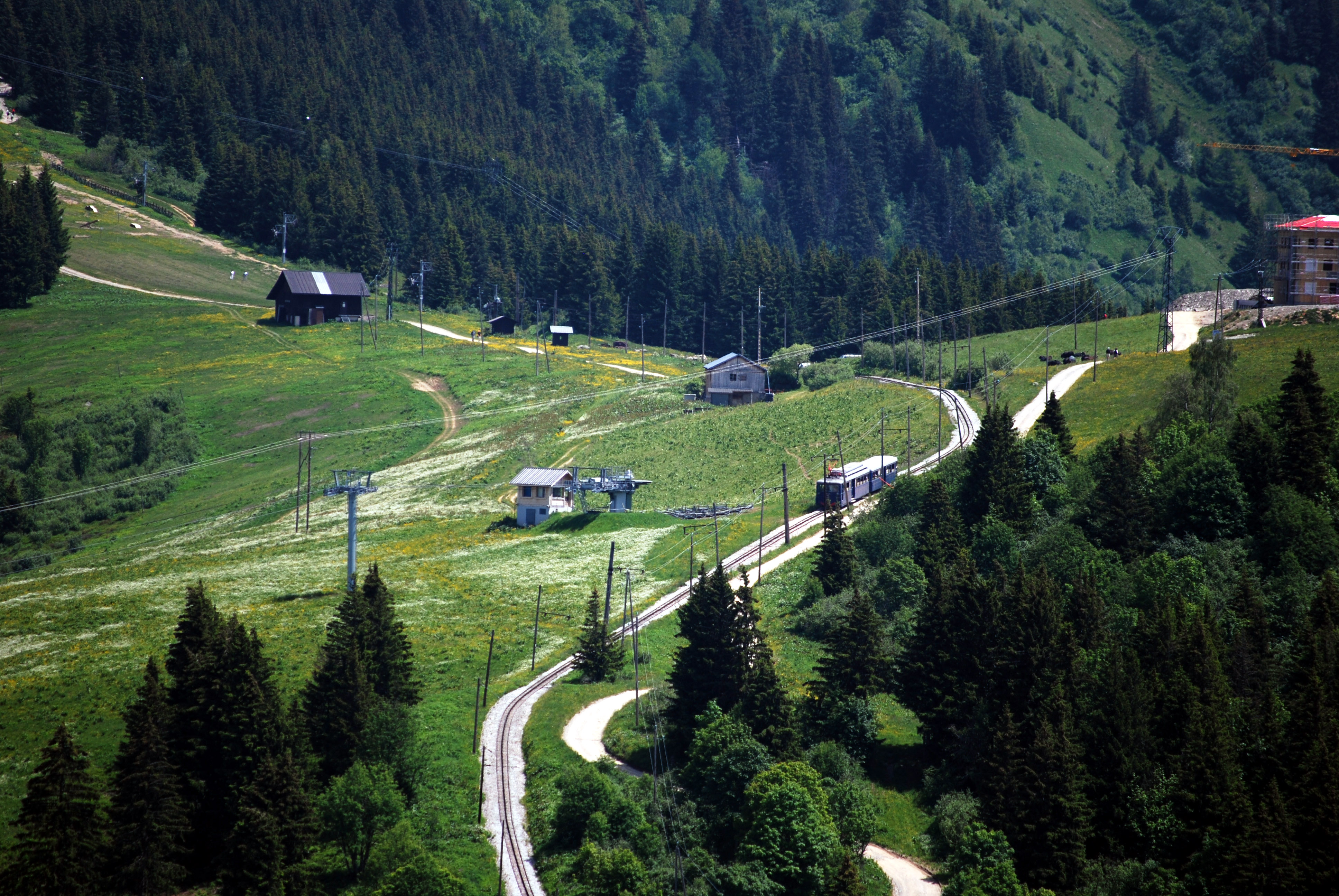 TMB EMU between Col de Voza (downhill) and Bellevue (uphill).